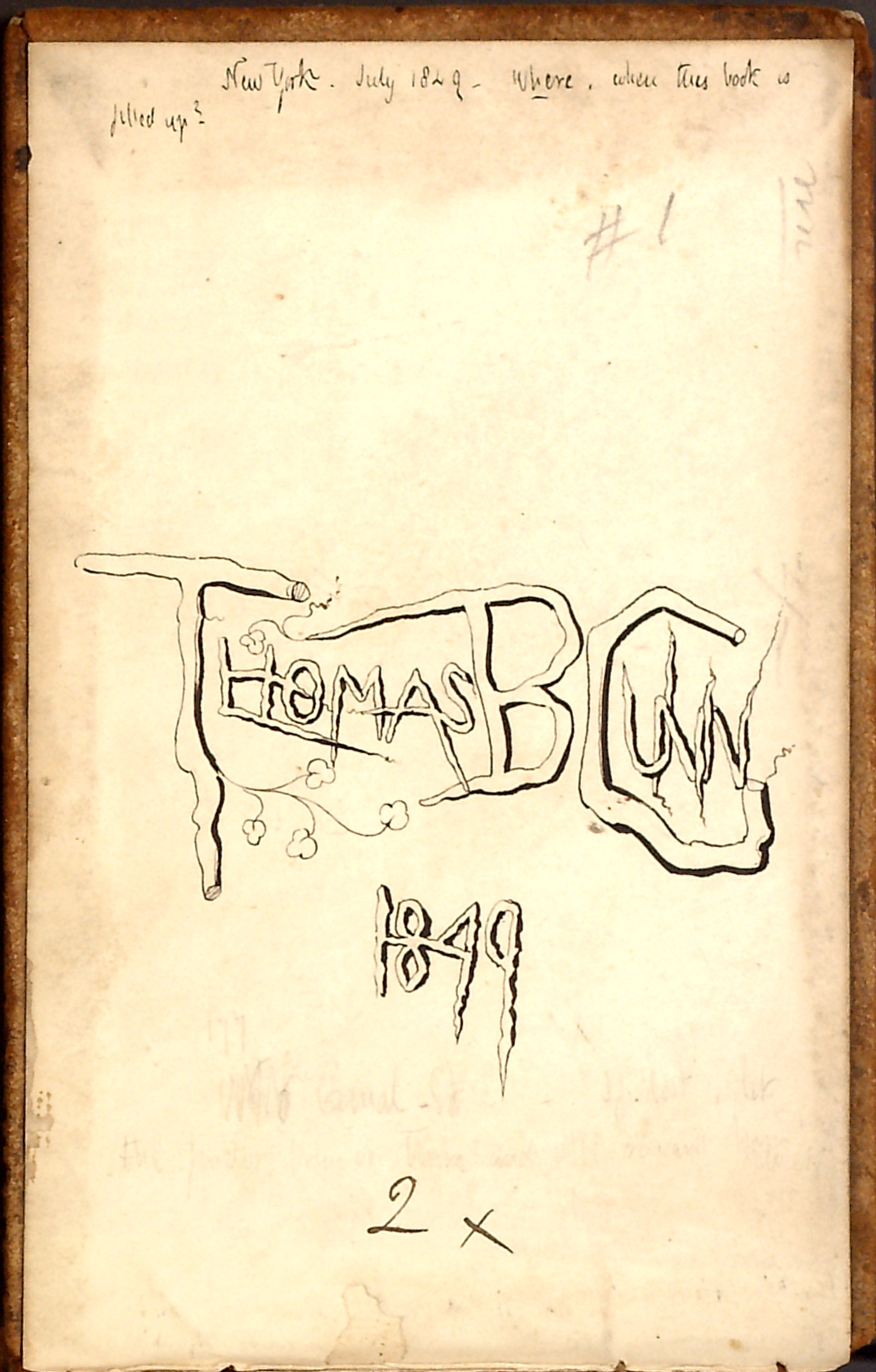 Front fly-leaf. Includes Gunn's notes and a decorative sketch of his name and the date. Transcription: New York. July 1849. Where, when this book is filled up? #1 Thomas B Gunn [illustrated by Gunn] 1849 [illustrated by Gunn] 177 Canal St. If lost, let the finder bring it there and I'll reward him! 2xTitle: Thomas Butler Gunn Diaries: Volume 1, page 2, July 1849